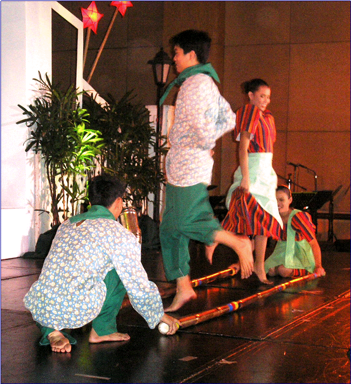 The Philippines' Muntinlupa Dance Company in its own version of the world-renowned Philippine dance called "Tinikling", performed during the Sayawika cultural show held at the SM Super Center Muntinlupa, Philippines.